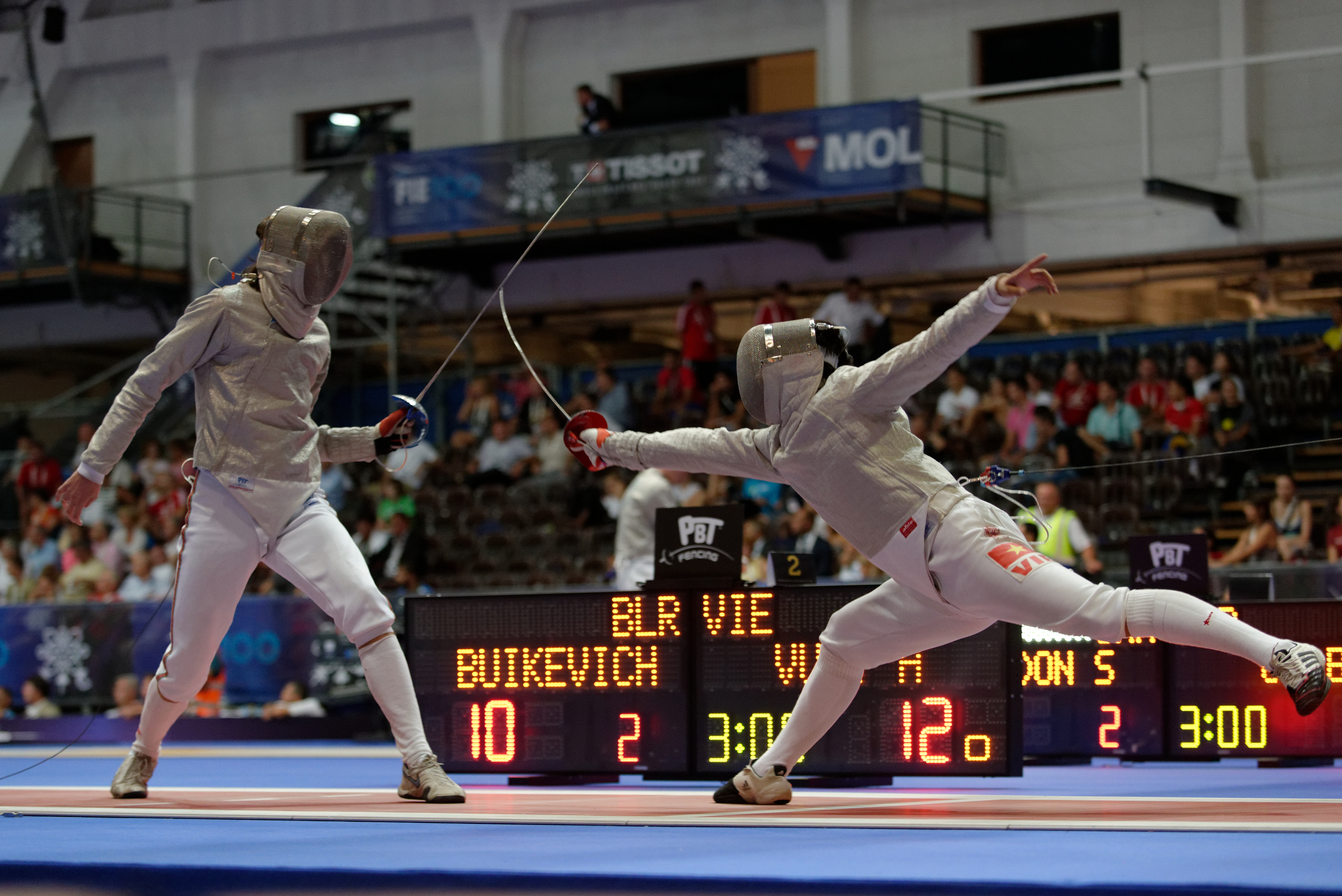 Aliaksandr Buikevich of Belarus fences against Vu Thanh An of Vietnam in the men's sabre round of 64 of the 2013 World Fencing Championships at Syma Hall in Budapest, 7 August 2013.